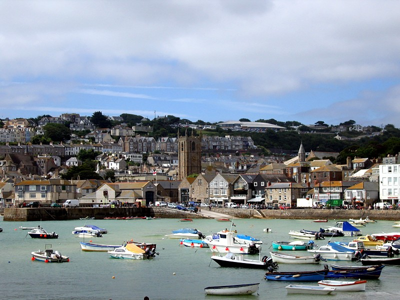 St. Ives - Harbour - Cornwall - UK